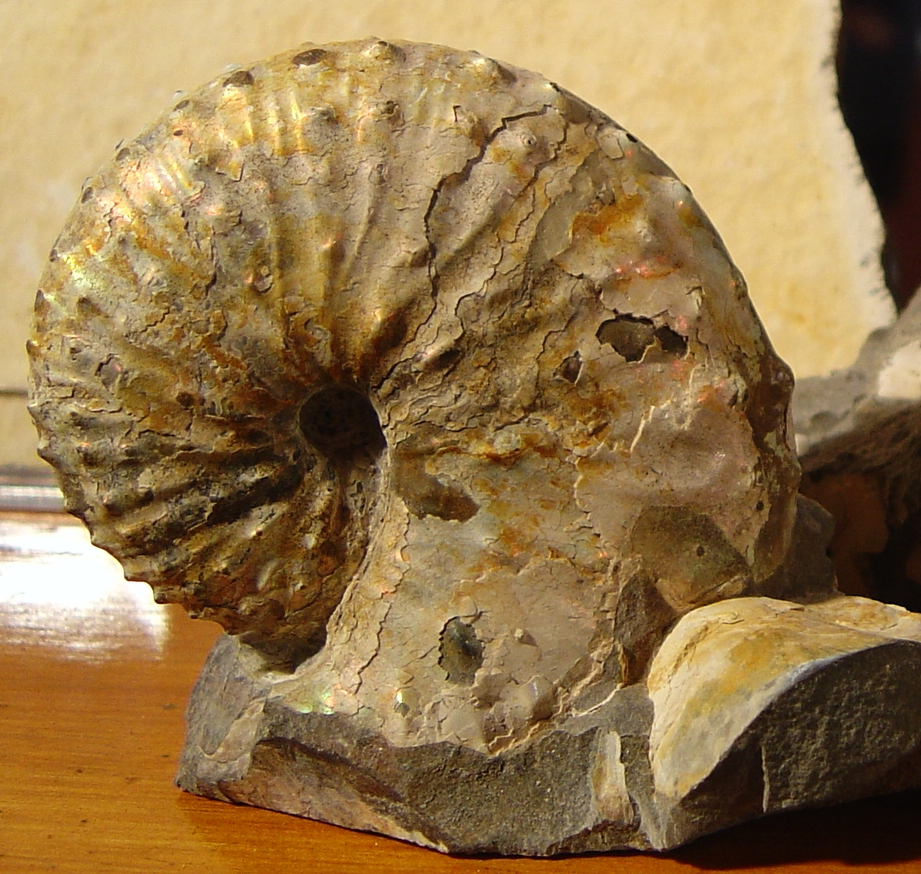 Discoscaphites conradi I took this photo in october 2005